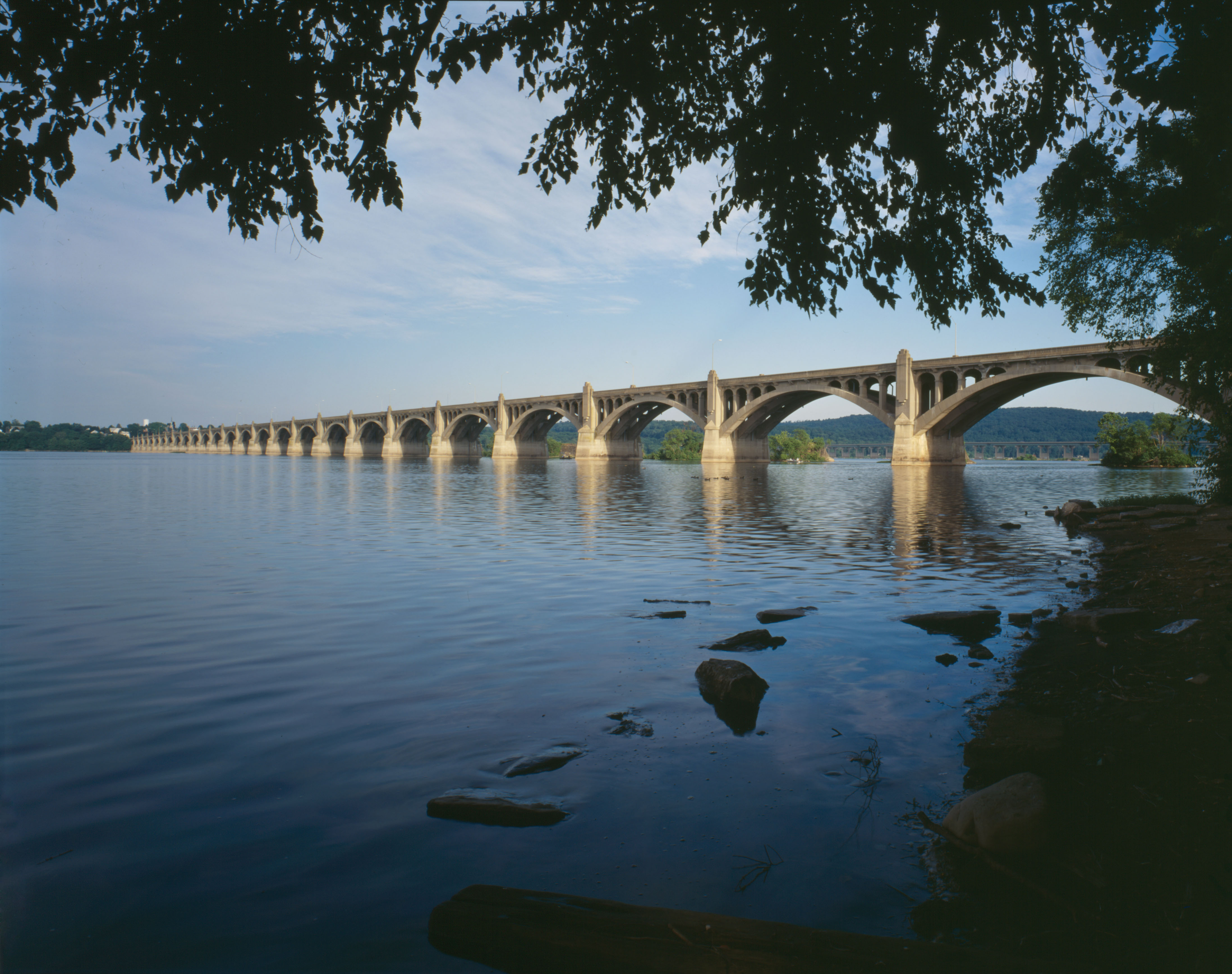 Columbia-Wrightsville Bridge between Columbia and Wrightsville, Pennsylvania. Taken summer 1997 by Joseph Elliott, "3/4 view from southwest".